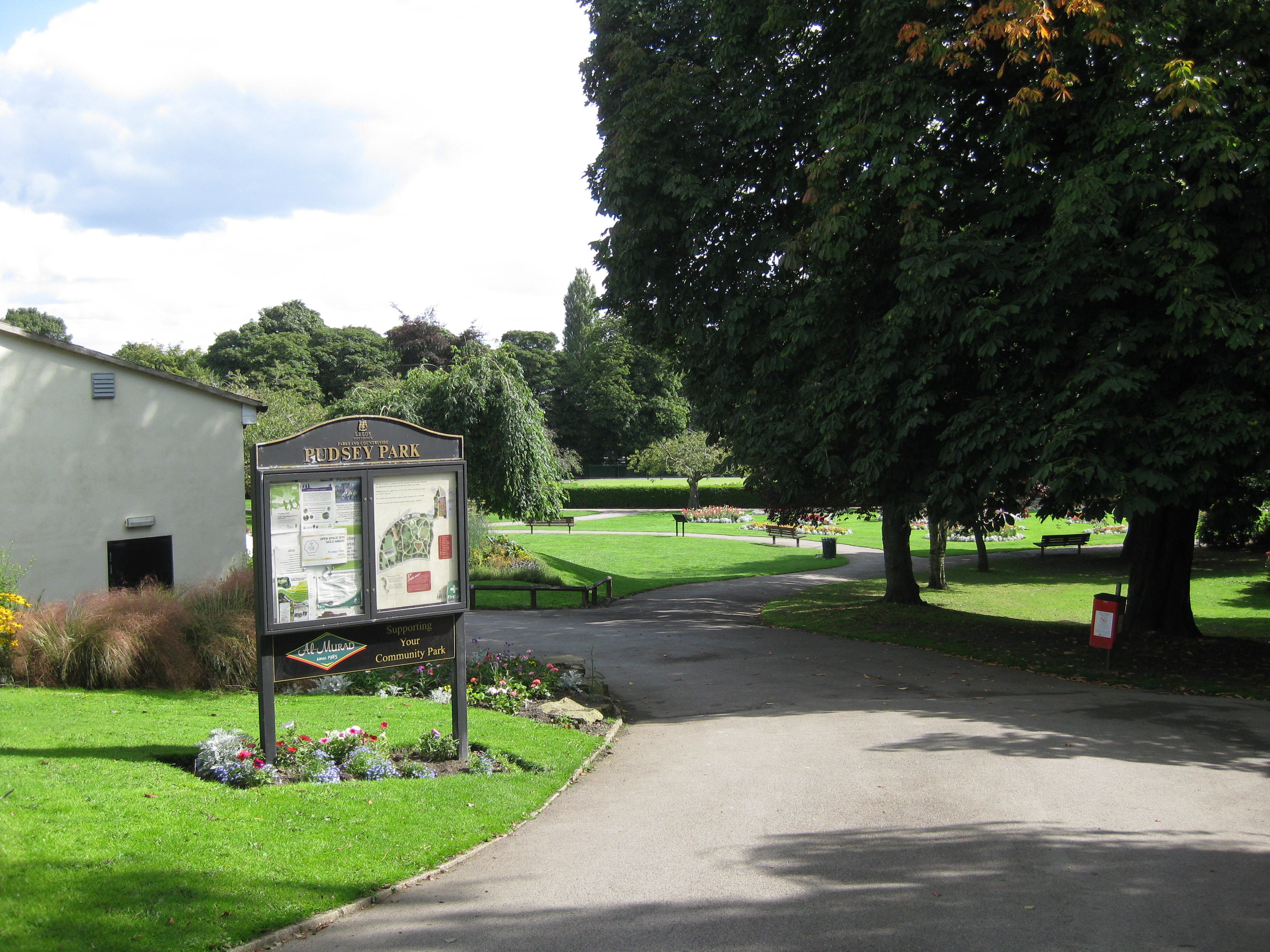 Pudsey Park, Leeds. With sign giving the name.